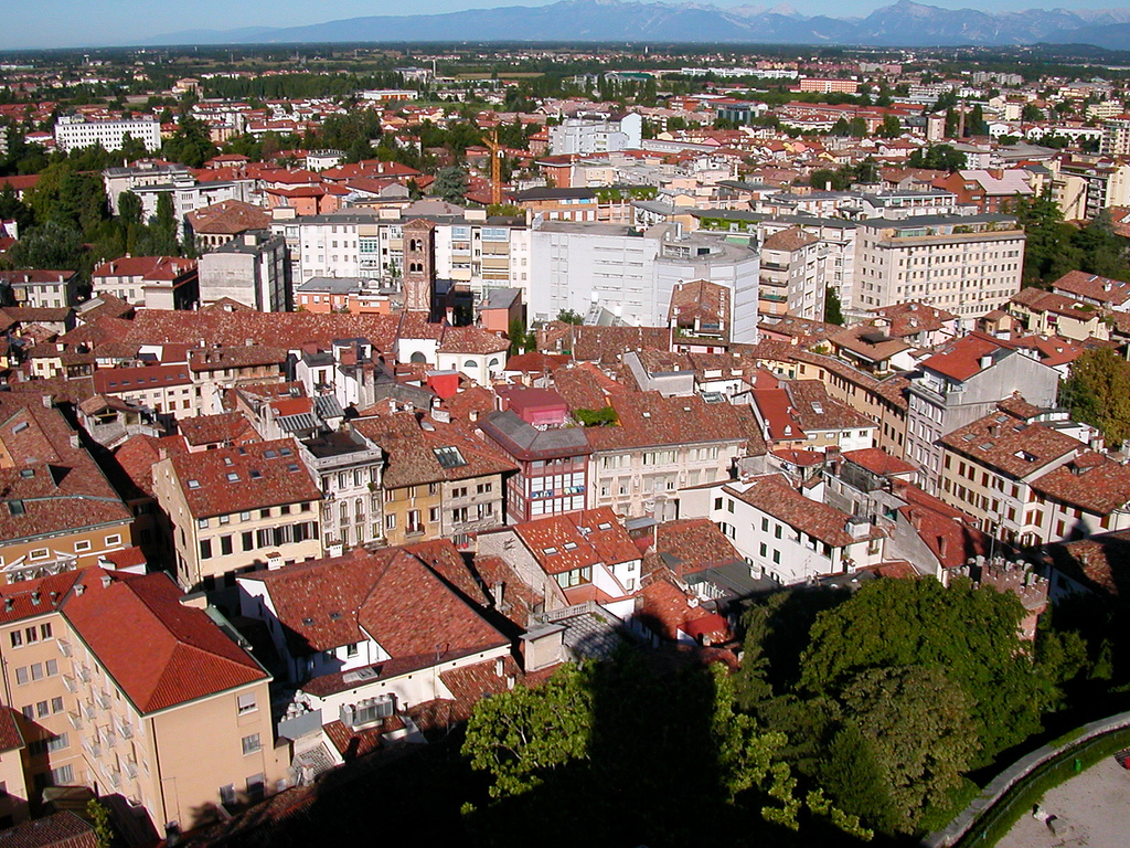 Udine panorama north west